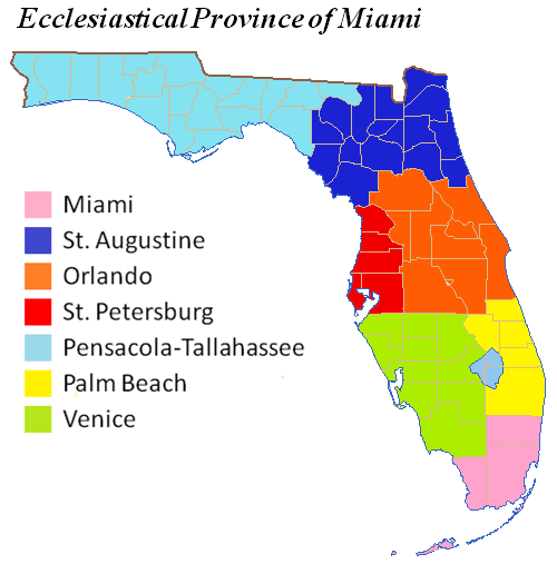 The Province of Miami in the Catholic Church encompasses the entire state of Florida, USA.